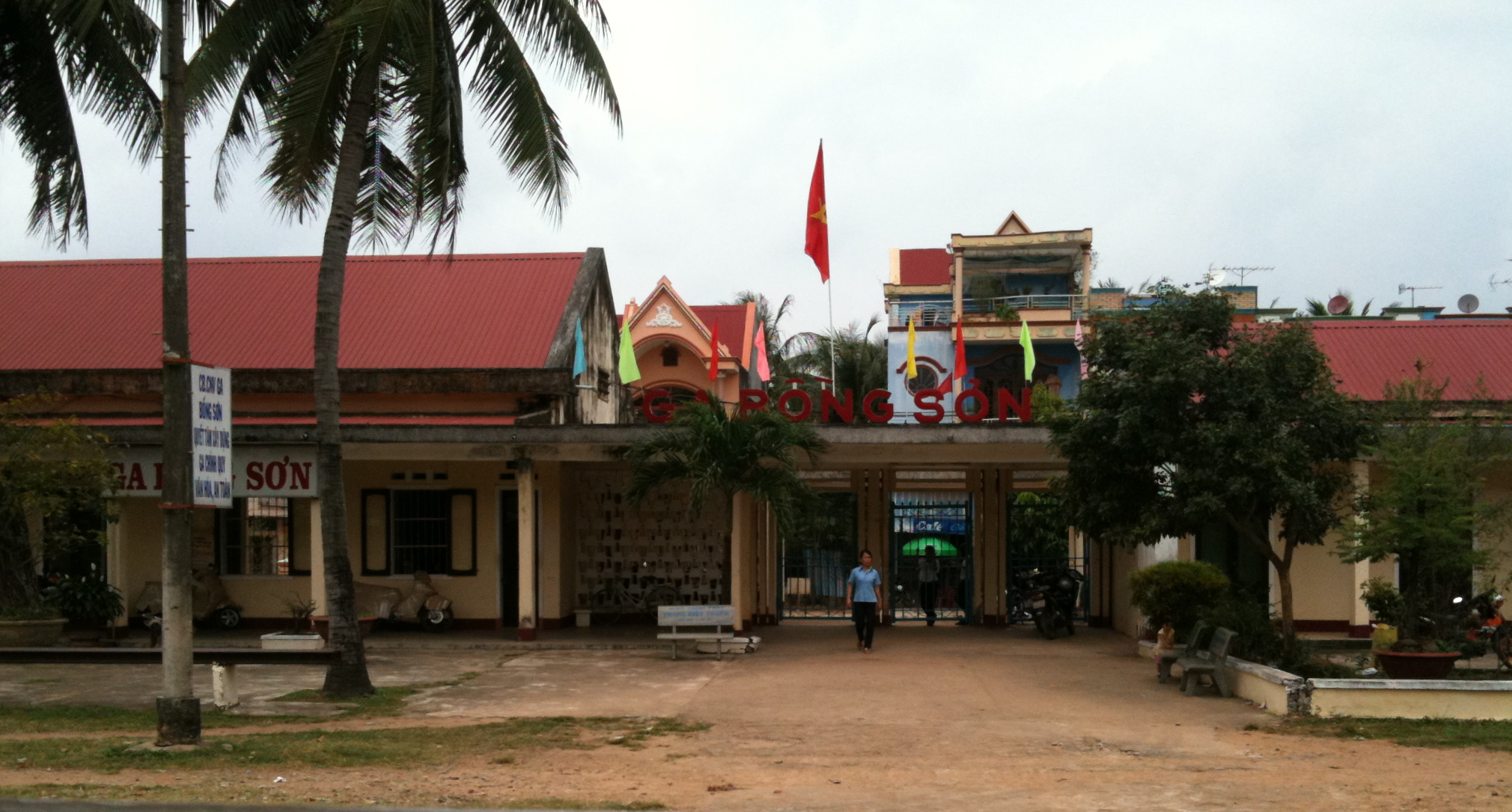 Bong Son Railway Station, a local station between Quang Ngai and Quy Nhon, Vietnam.